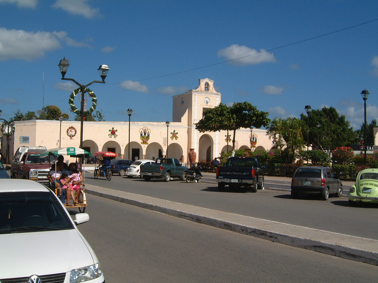 City hall Ticul Yucatan Mexico